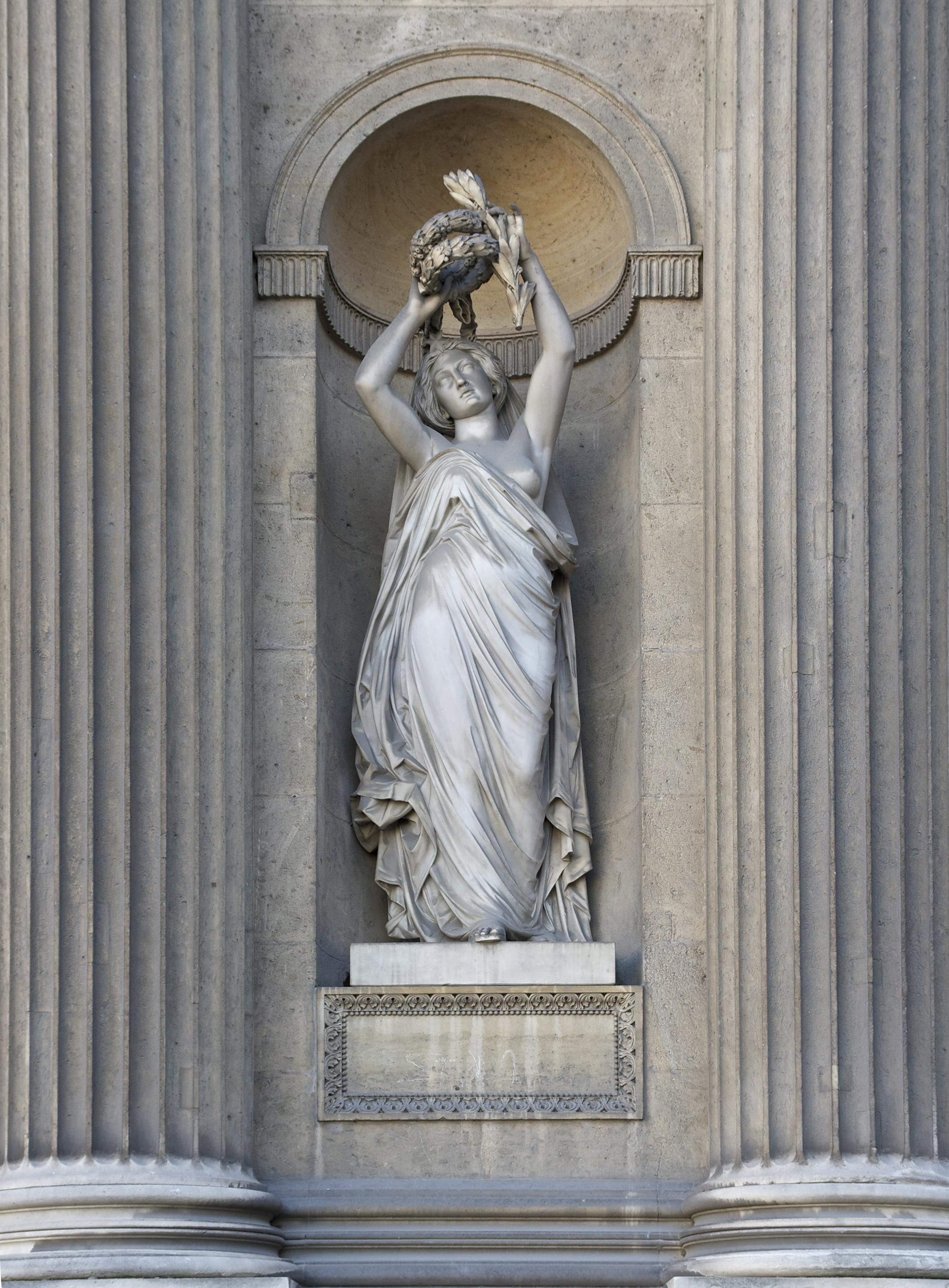 A niche statue in the Cour Carrée of the Palais du Louvre, Paris, France.